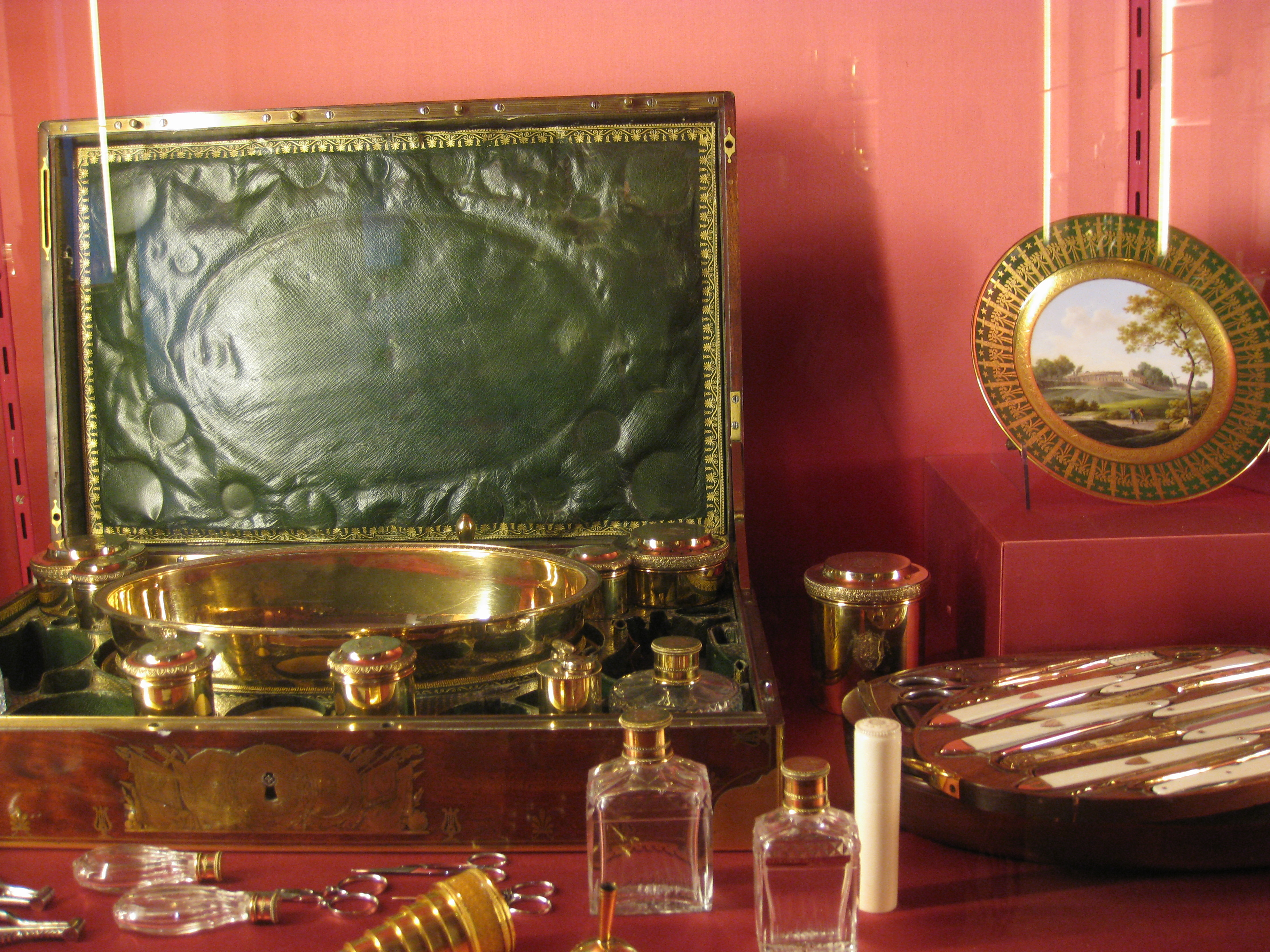 Bathing Kit of Napoléon Bonaparte - Louvre